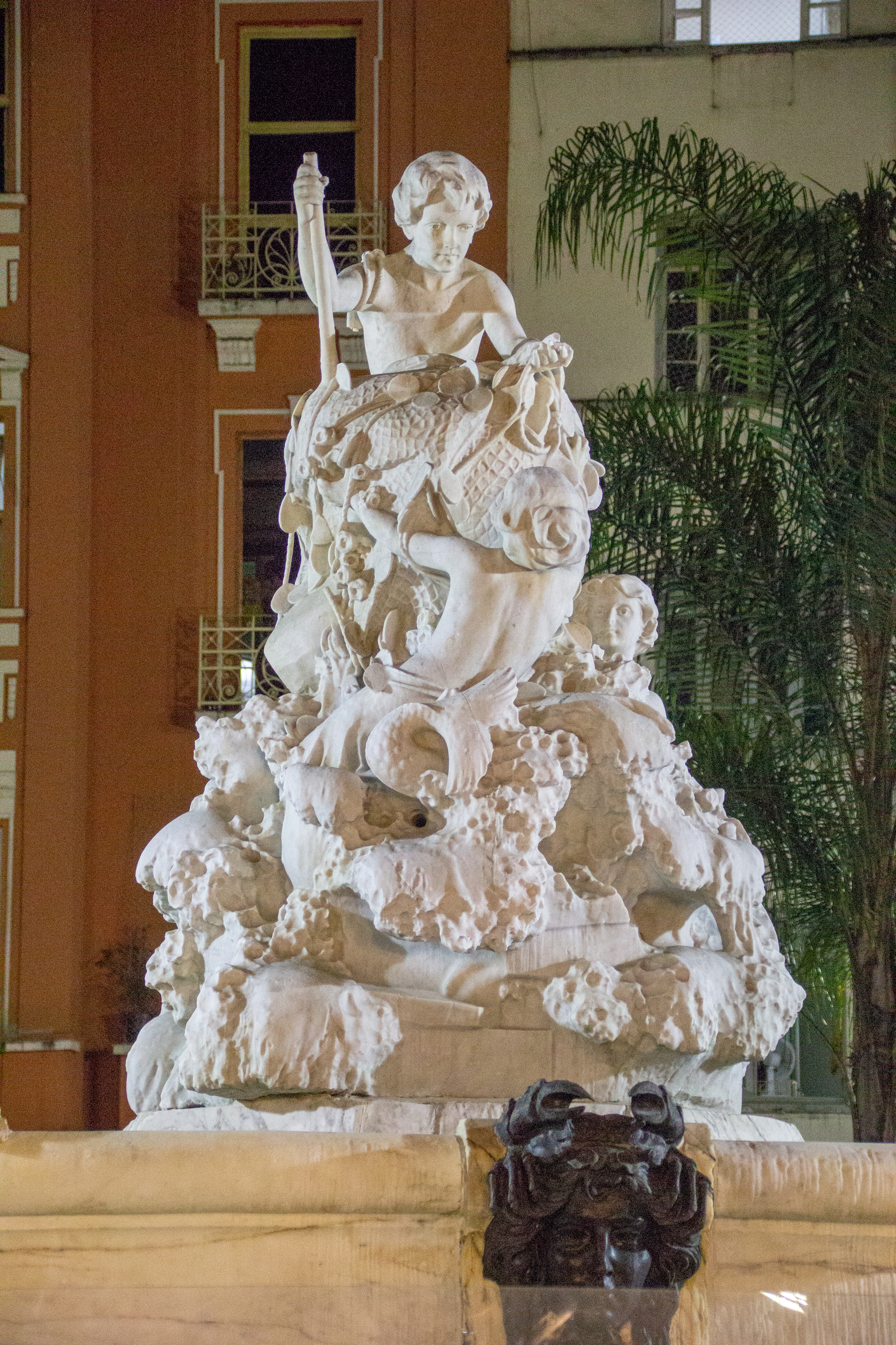 Caminhada Noturna, 26 April 2018, São Paulo, Brazil